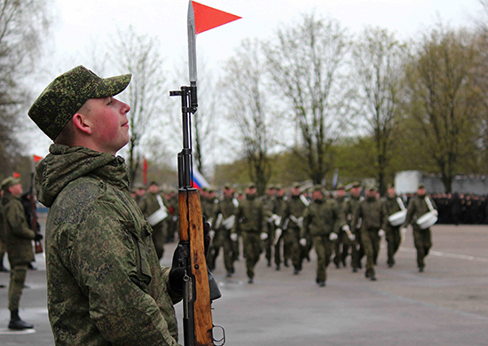 Военнослужащие российской военной базы в Абхазии приступили к тренировкам парада в ознаменование 24-й годовщины независимости Республики Абхазии